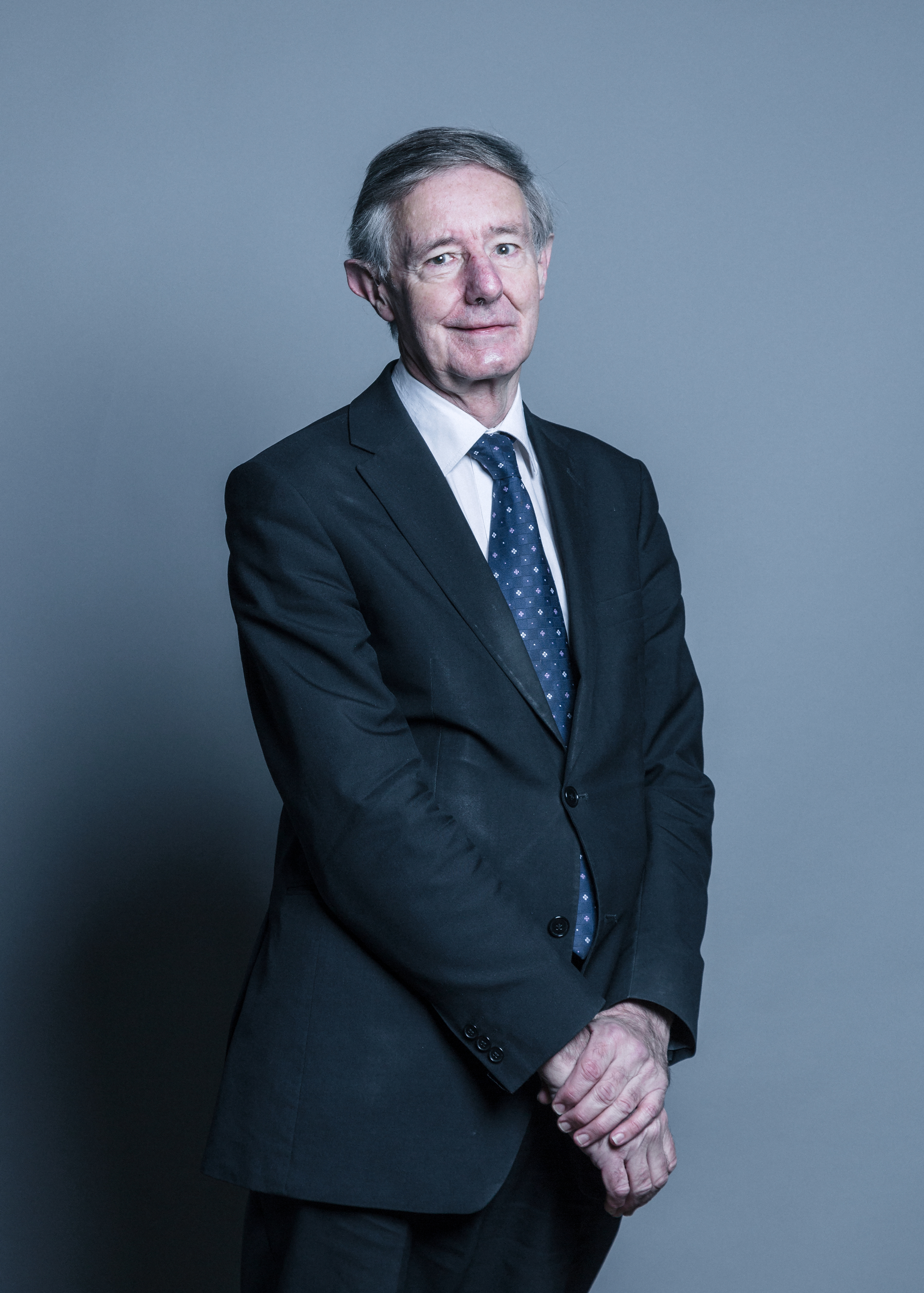 Official portrait of Lord Rosser